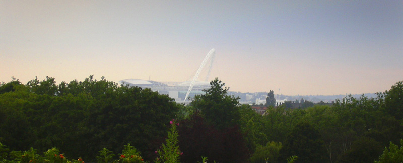 The view looking west from Dollis Hill House of horizon including Wembley Stadium, London